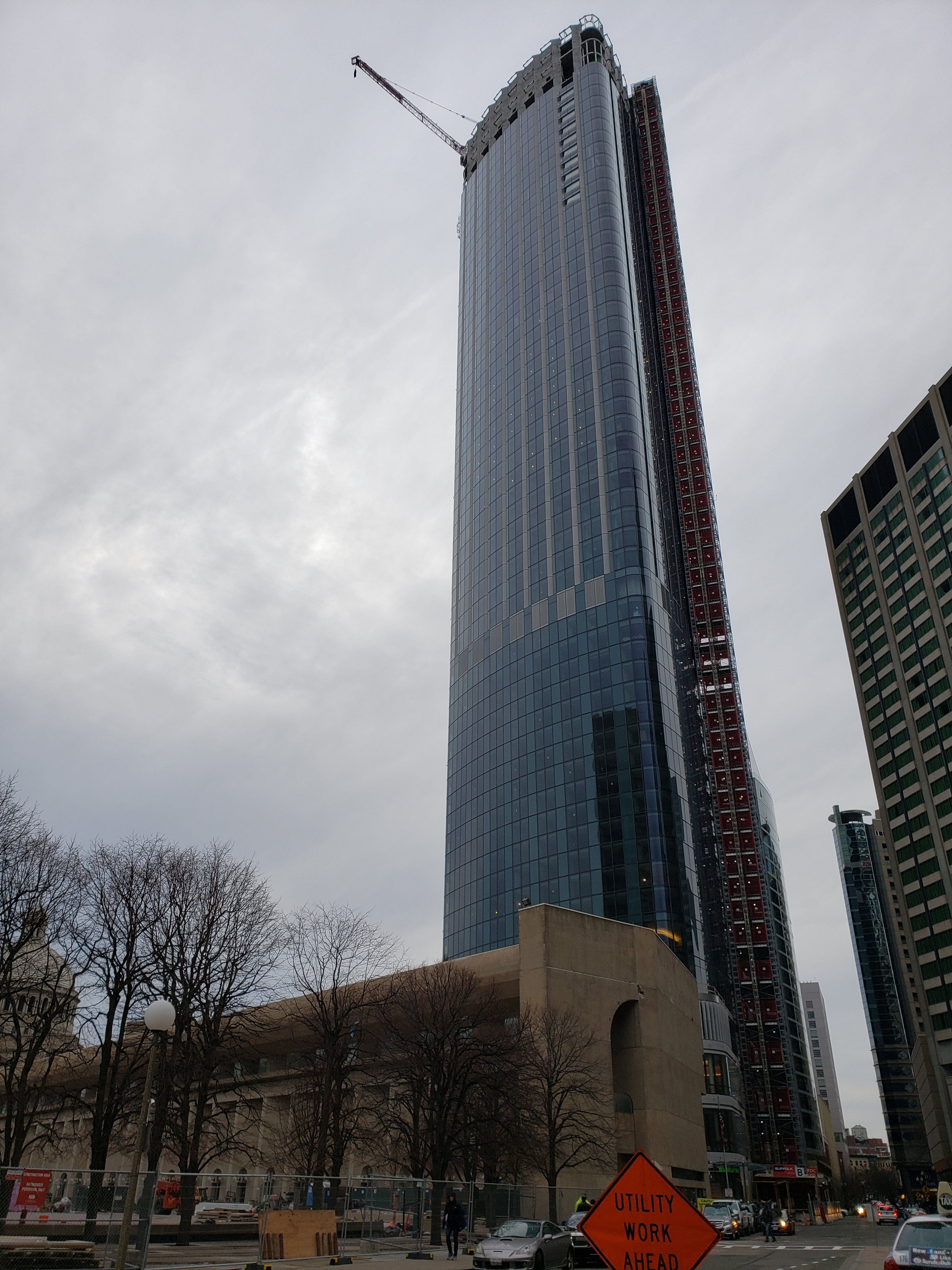 View of under construction One Dalton from the corner of Huntington Avenue just outside of the Prudential Center